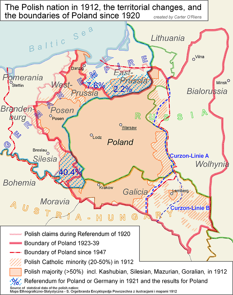 The map shows the area in which Polish people have a majority (aggregated on a NUTS 3 like level) based on a Polish statistical map of 1910. In addition to this it shows the pre-ww1 boundaries, the boundary of the Second Polish Republic, Curzon-Line A and B, the plebicite areas and the current boundary of Poland.